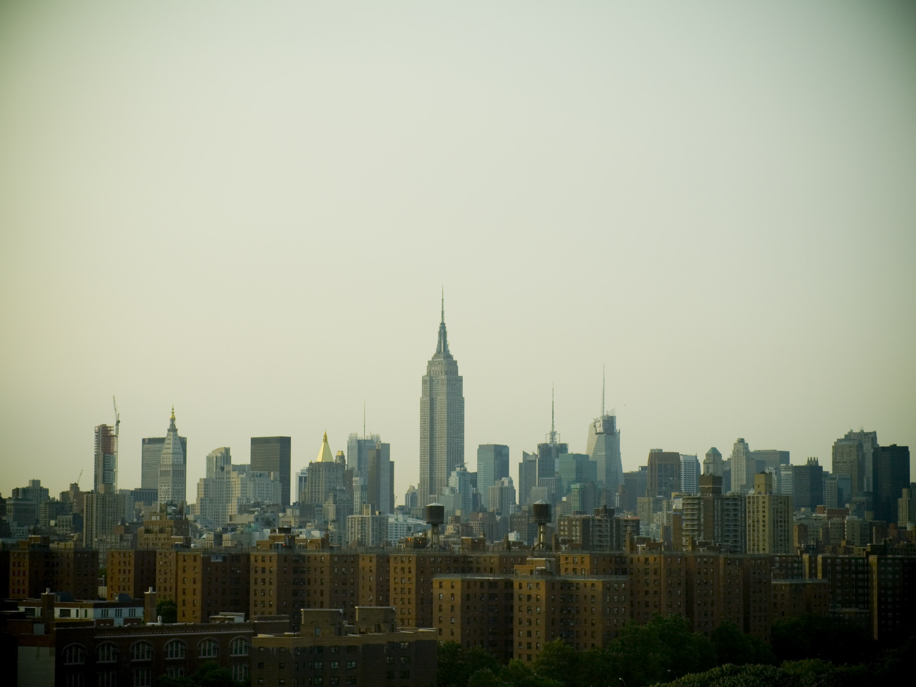 Shot of the Manhattan skyline from a car on the Williamsburg bridge. Projects in the foreground and skyscrapers in the background create an interesting visual juxtaposition.